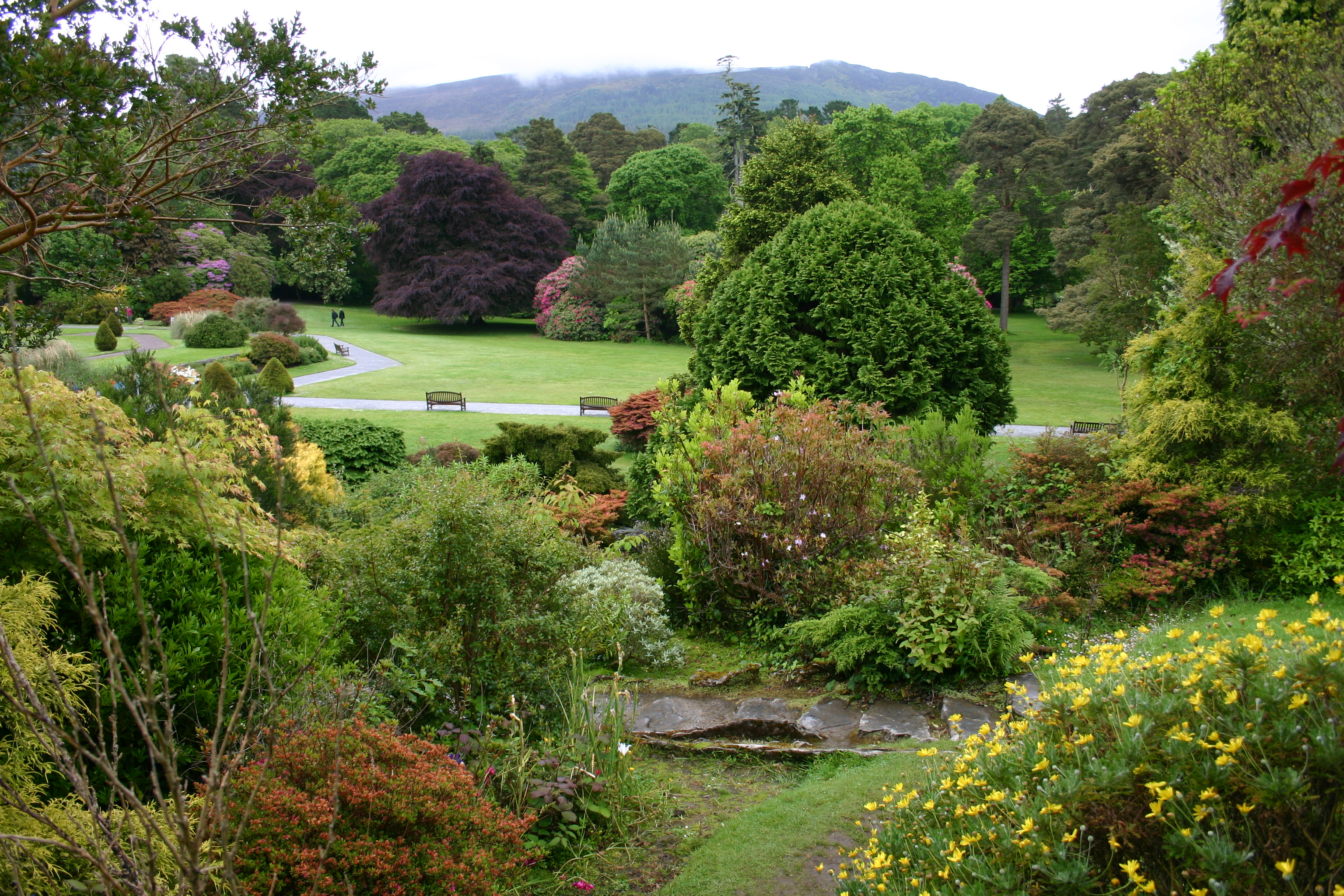 The garden of Muckross House